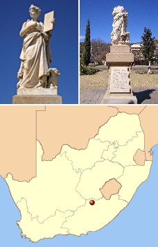 The Dutch Language Monument in Burgersdorp, South Africa